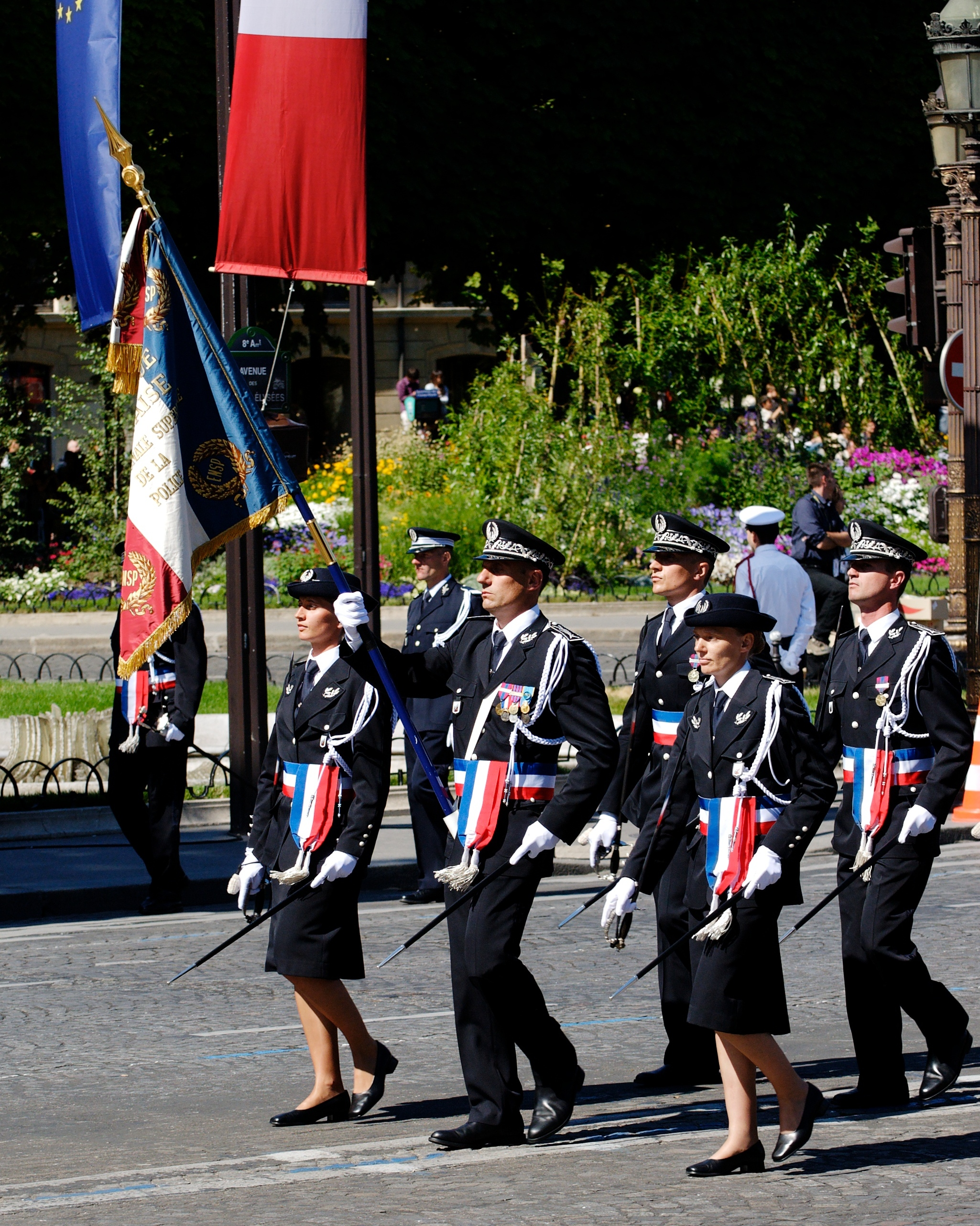 Flag guard of the French National Police Academy, Bastille Day 2008 military parade on the Champs-Élysées, Paris.